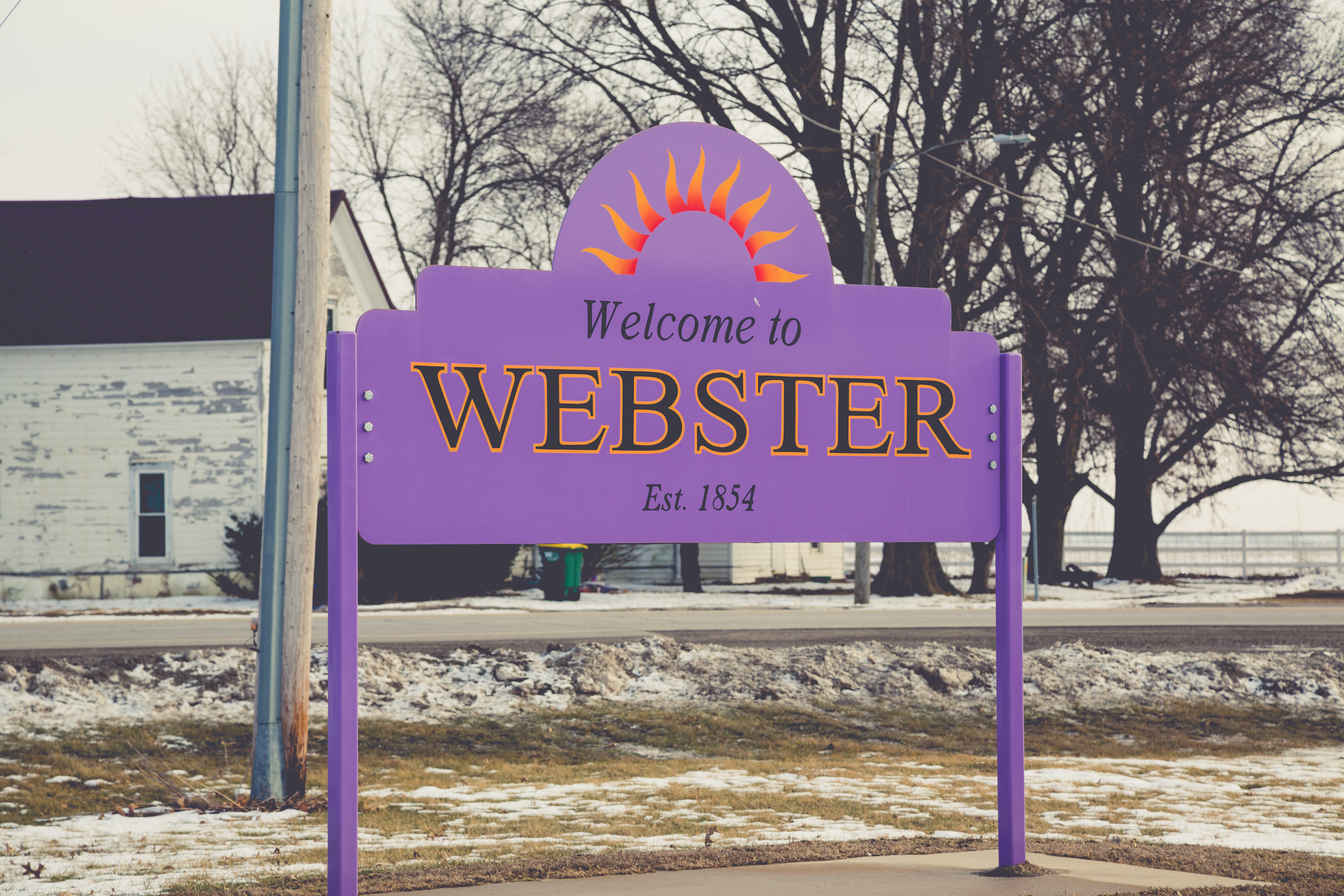 A welcome sign along Iowa Highway 149 in the small rural farming town of Webster, Iowa.